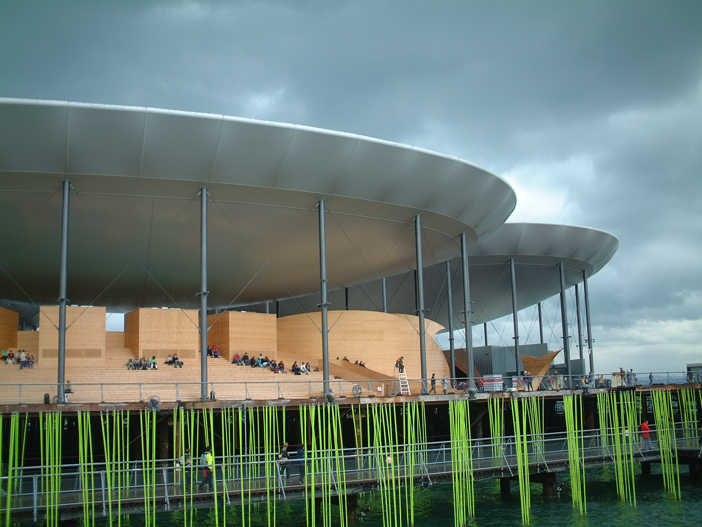 Expo.02 in Neuenburg, Yverdon, Biel and Murten (exact location see file name)